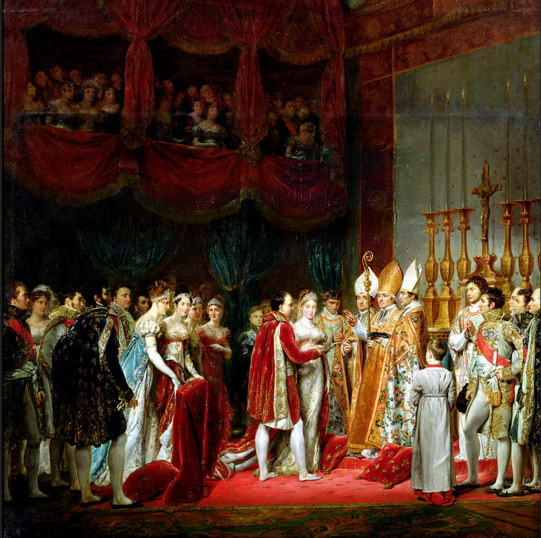 Painting of the marriage ceremony of Napoleon I, Emperor of France, and Archduchess Marie Louise of Austria, eldest daughter of Emperor Franz I. of Austria, held in the Louvre chapel, 2 April 1810.